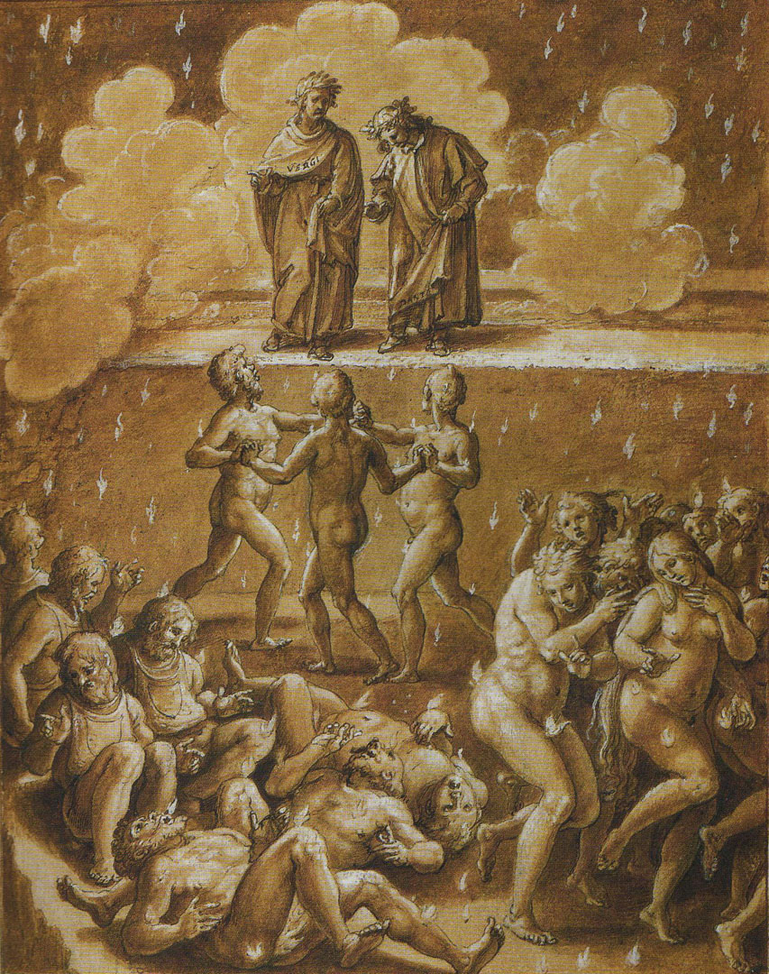 Illustration of Dante's Inferno, Canto 16